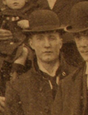 Photo of Charlie Curtis in the Punch newspaper on 24 August 1899.